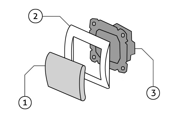 Parts of light switch